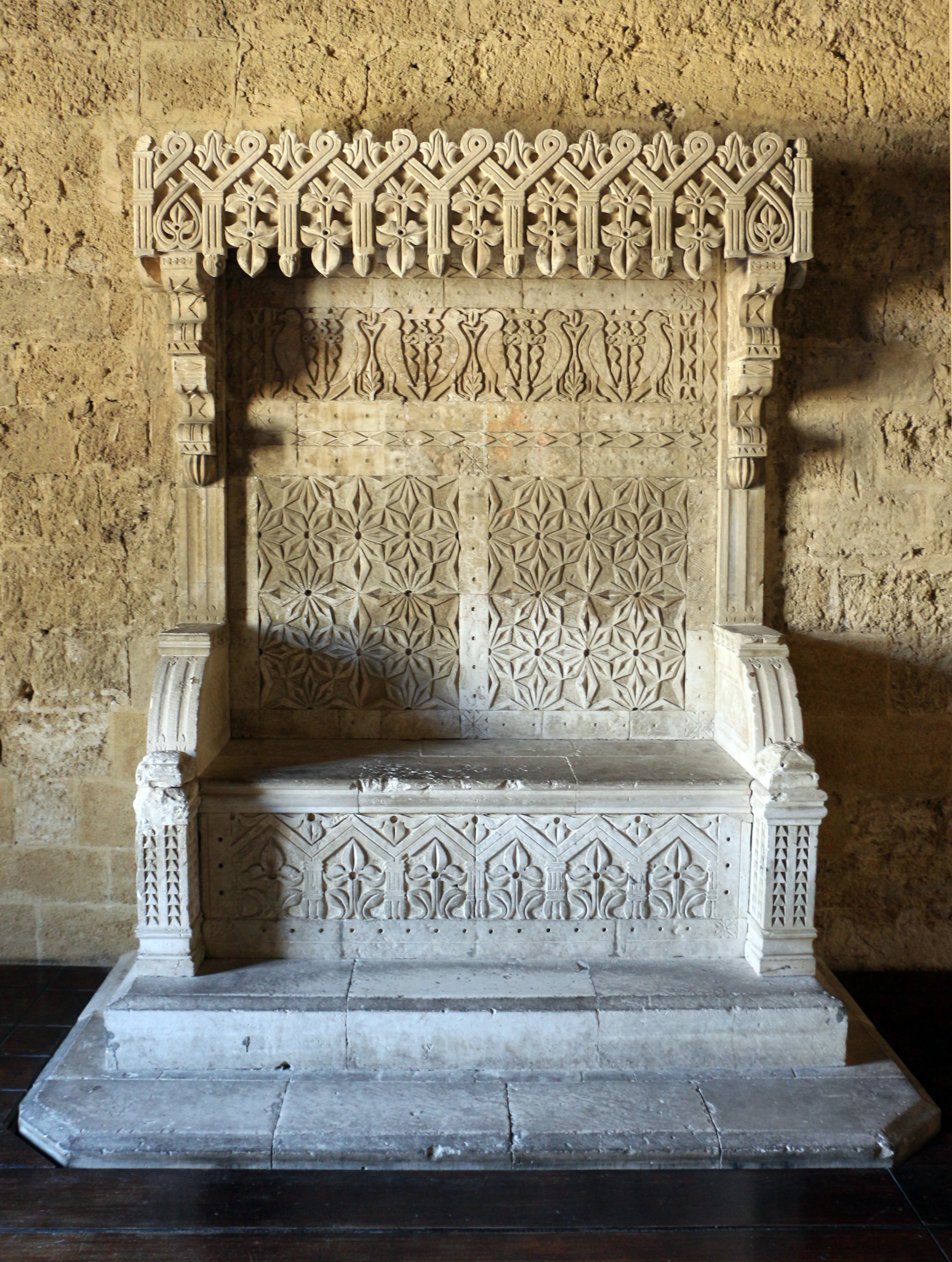 Castello normanno-svevo (Gioia del Colle) - Interior